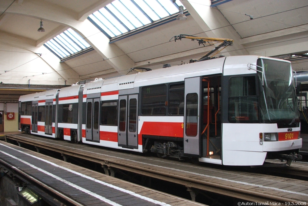 Tatra RT6N, Vozovna Pankrác, Prague